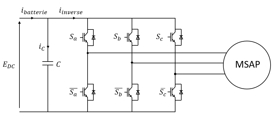 A Three phases inverter